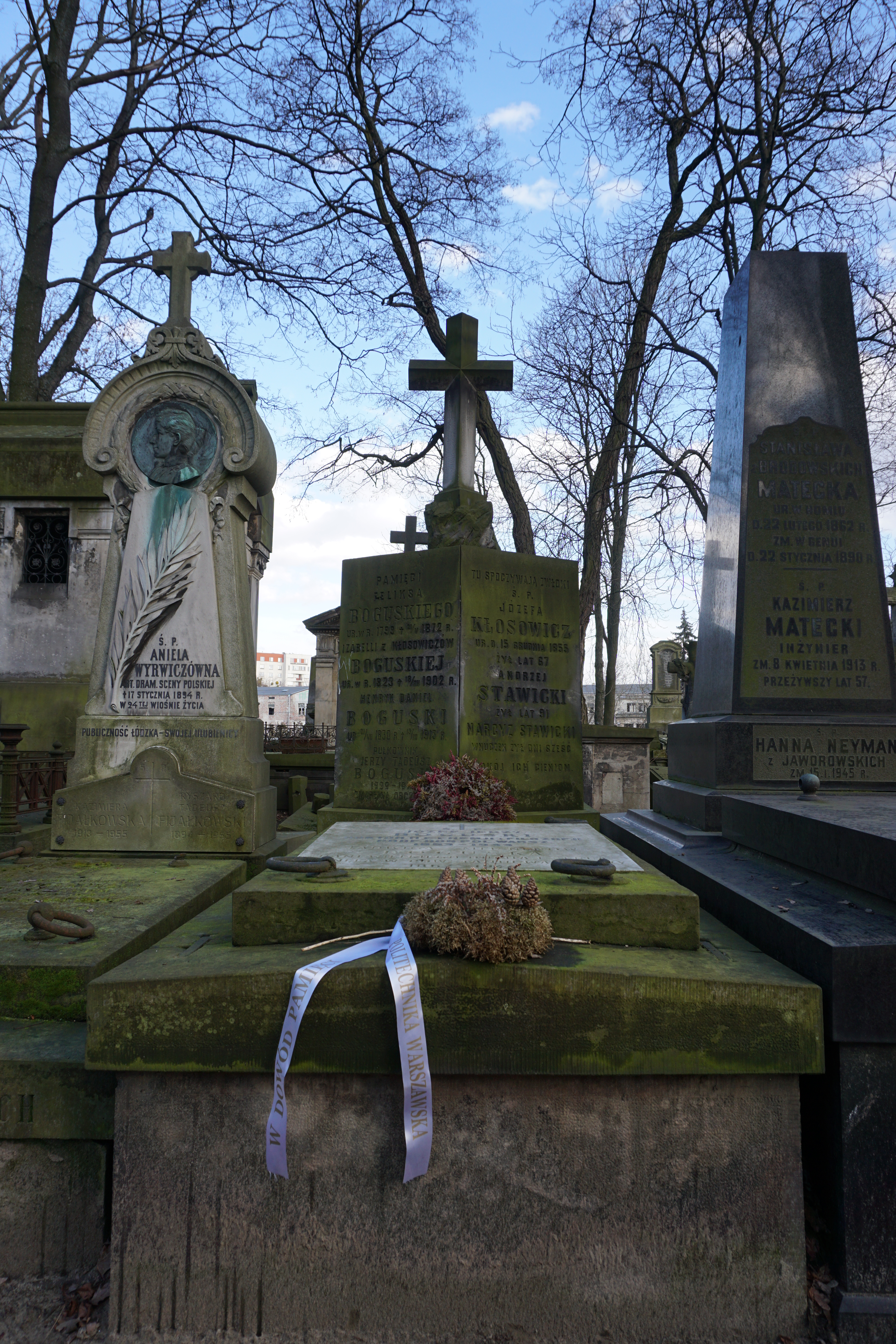 The grave of Józef Boguski at the Powązki Cemetery (section 161, row 6, grave 5)